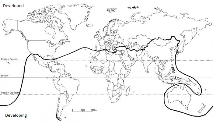 The Brandt line and the division of the World on poor south and rich north.